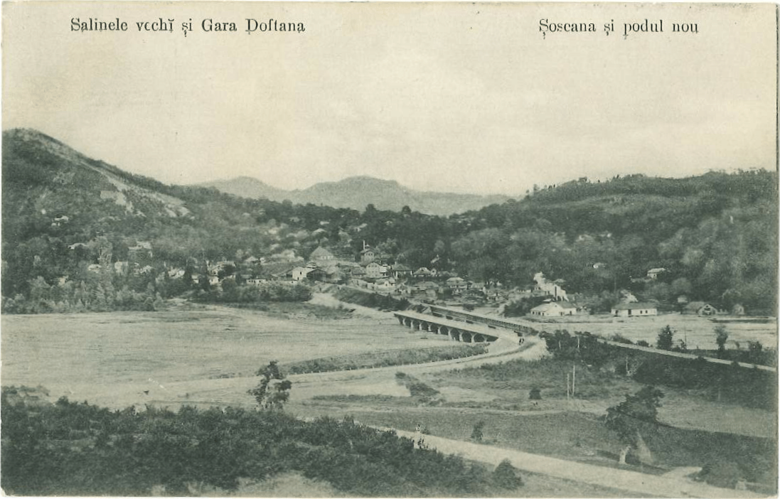 Vintage postcard showing Doftana River near Telega, Romania. Two pieces of infrastructure are visible on its right side: – former Câmpina–Telega railway line crossing the river over an iron cast bridge built by Romanian engineer Anghel Saligny; – a bridge of the secondary road linking the town of Câmpina and the village of Telega. The white two-storey building shown in the background is the former Telega/Doftana railway station.